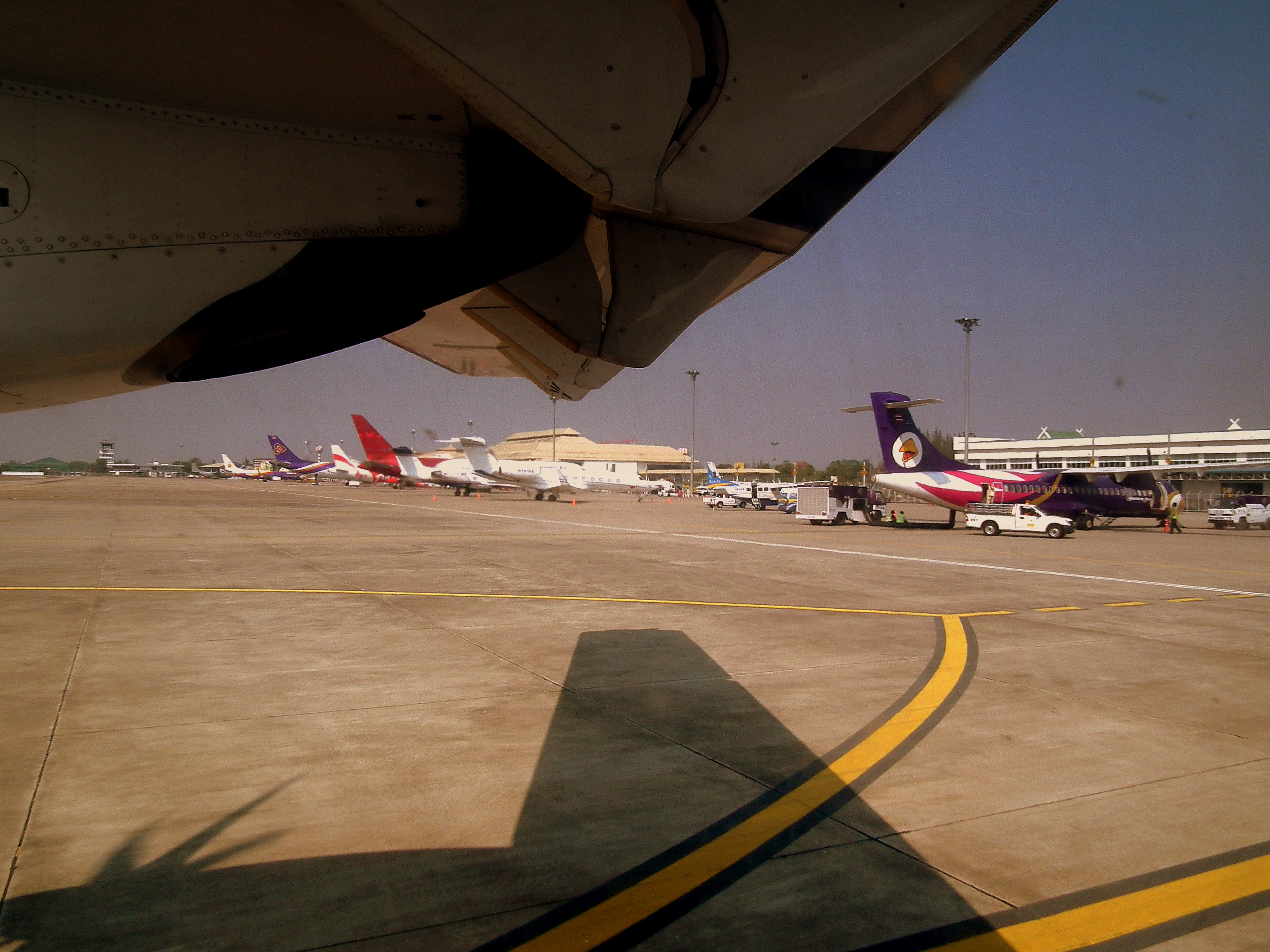 LAO AIRLINES FLIGHT QV615 CHIANG MAI THAILAND TO LUANG PRABANG LAOS ATR72-500 RDPL34176 FEB 2012